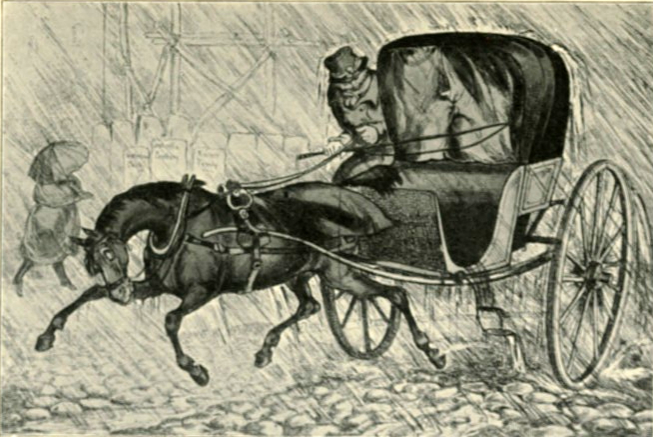 London Cab of 1823, with curtain drawn p.207 of Omnibuses and Cabs